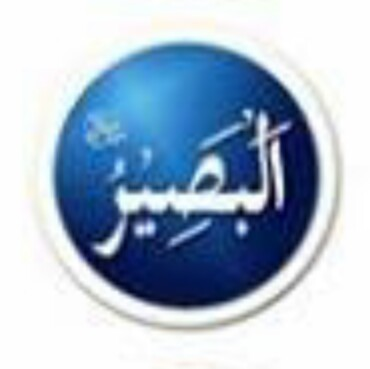 Al-Basīr / The All Seeing is a name of Allah, is a name of God in Islam.